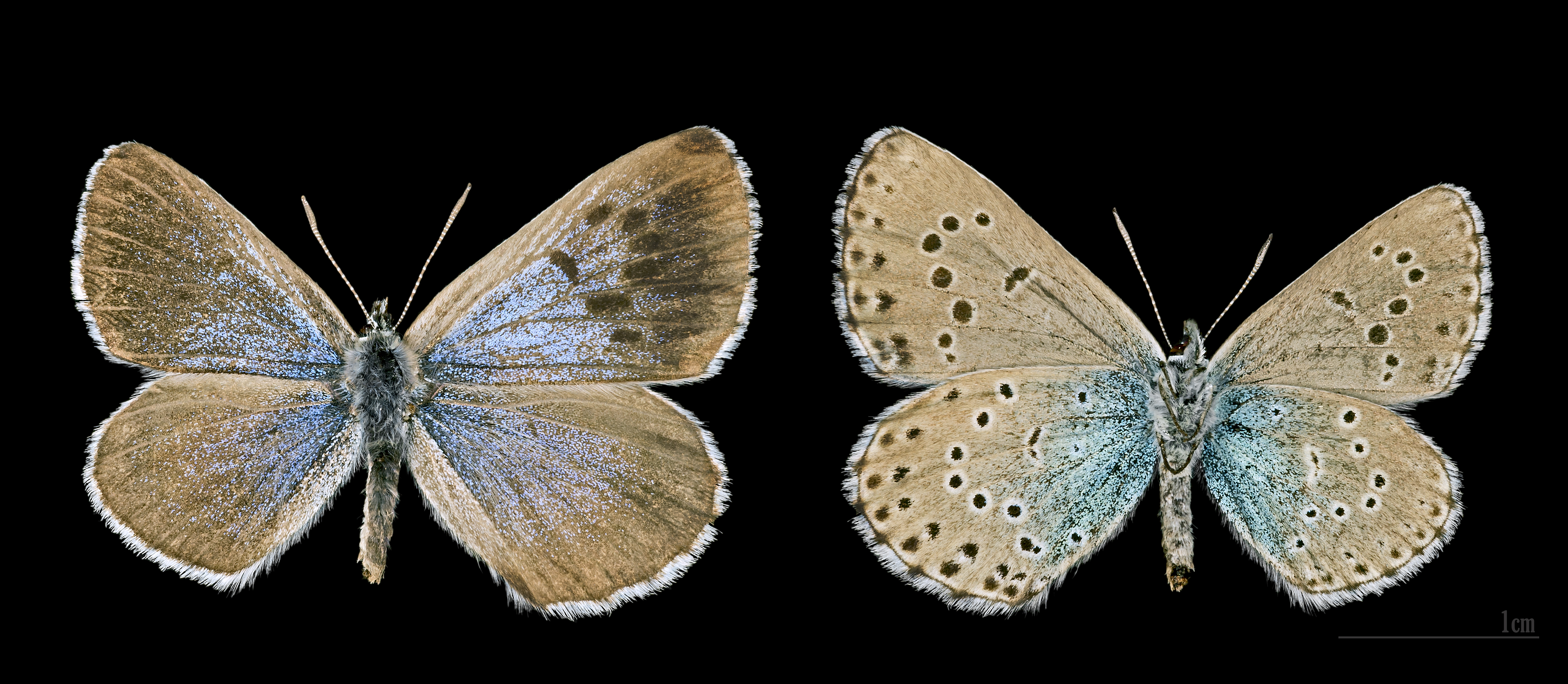 Large Blue. Two views of same specimen, Gynandromorph